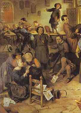 showing a child on the left carrying a hornbook.